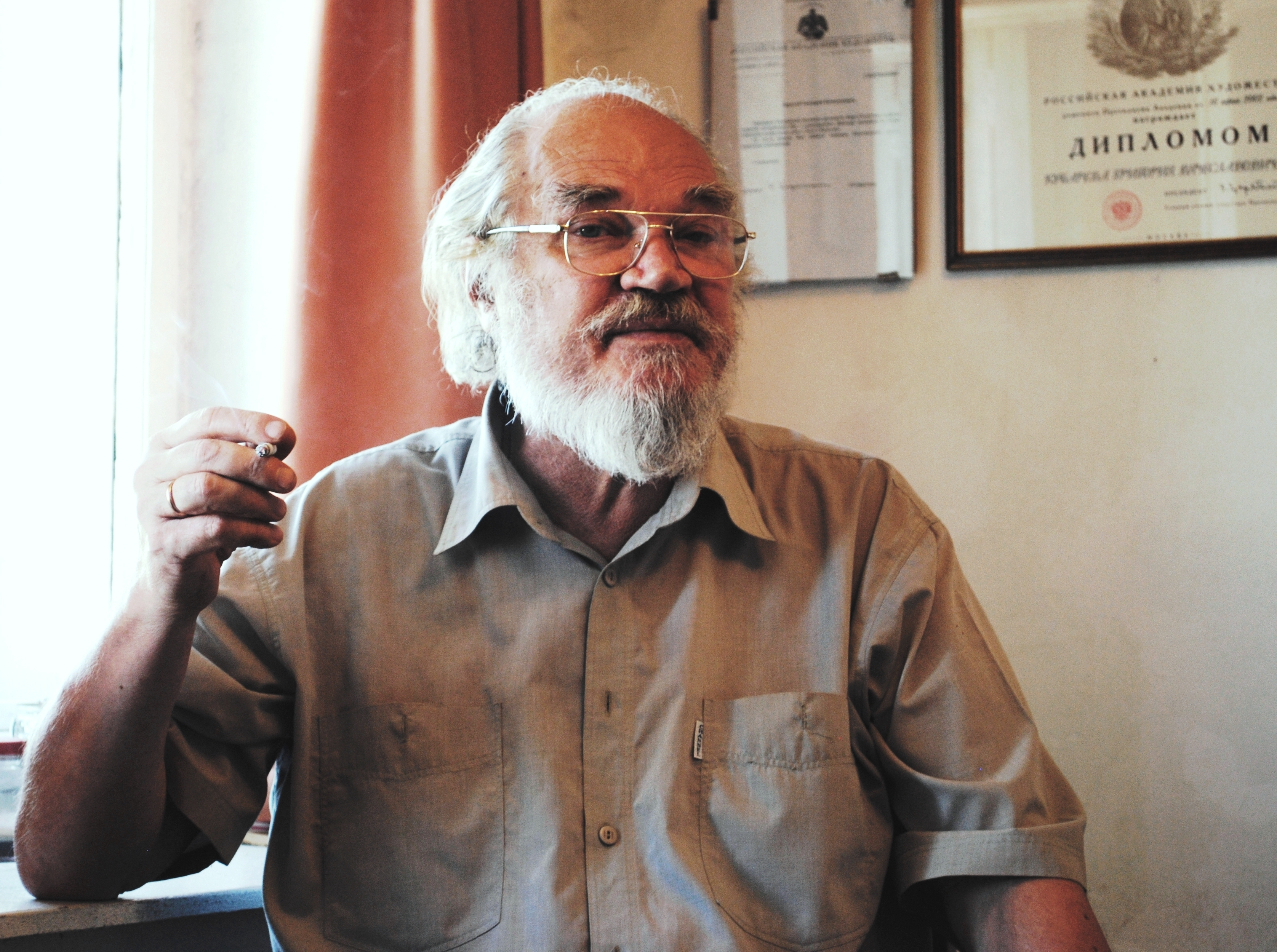 Kubarev Livny